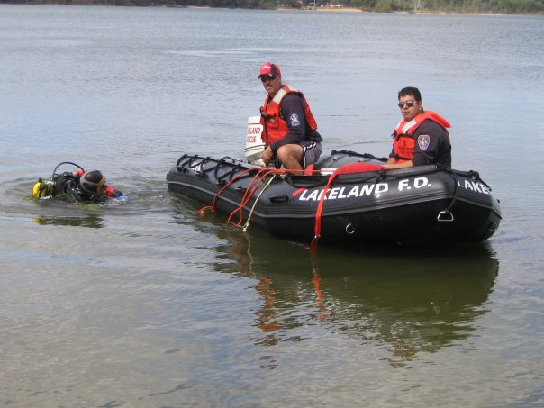 Diver and support boat